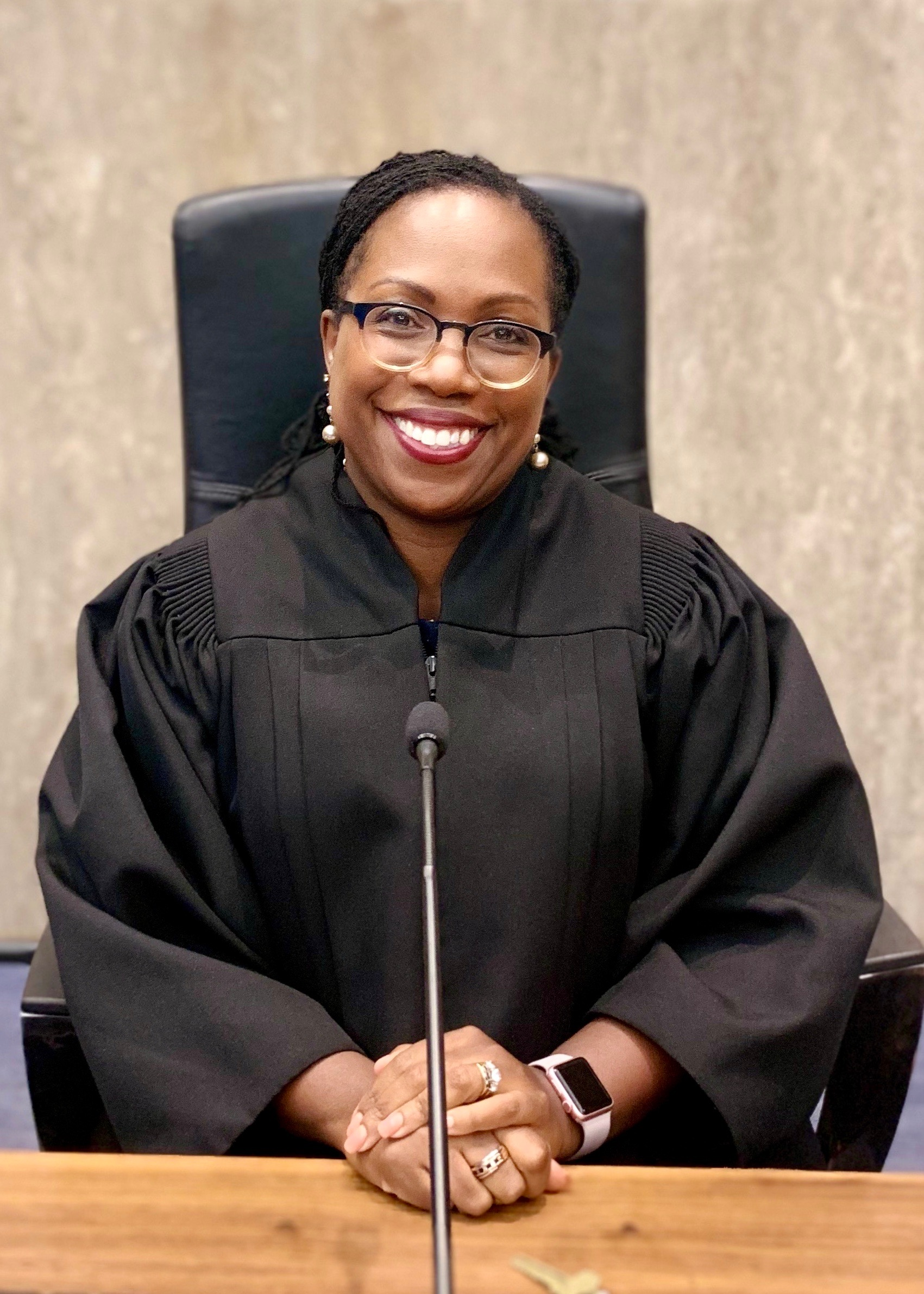 Official portrait of Judge Ketanji Brown Jackson